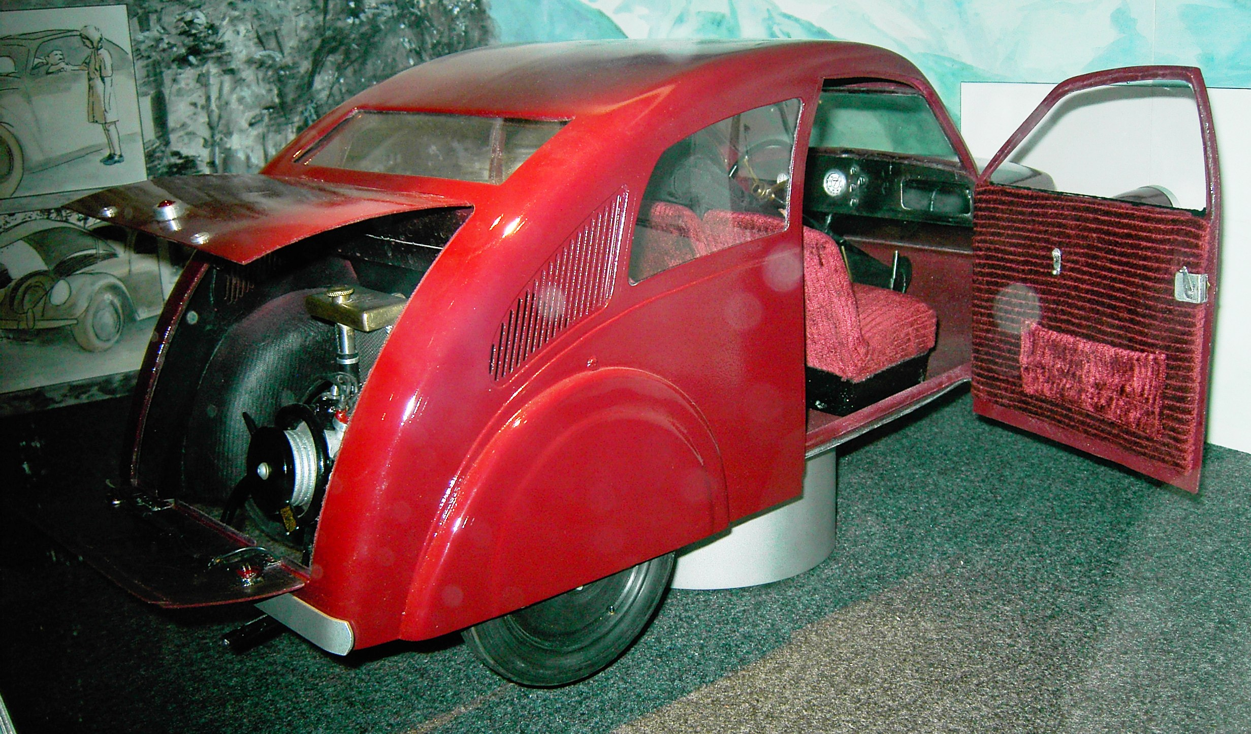 Scale model of Porsche Typ12 (1931/32) Volkswagen made by Zündapp, Nuremberg